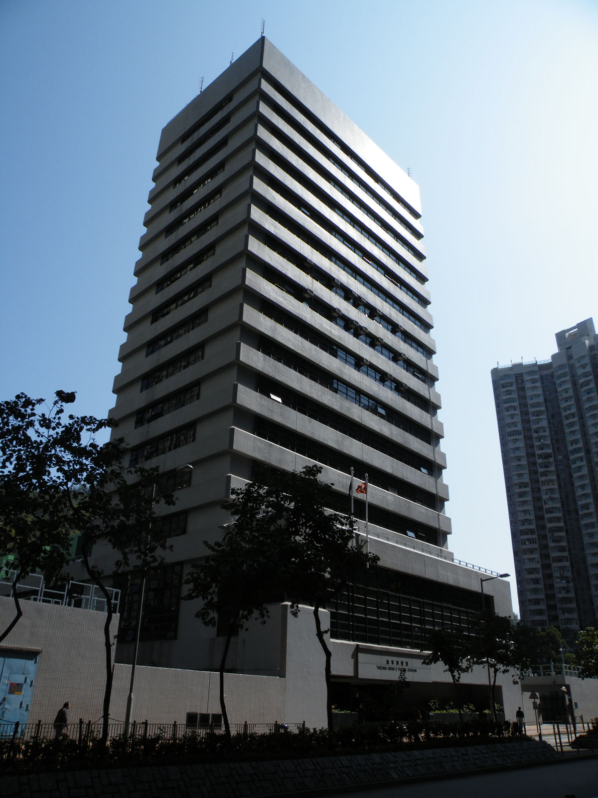 Tseung Kwan O Police Station